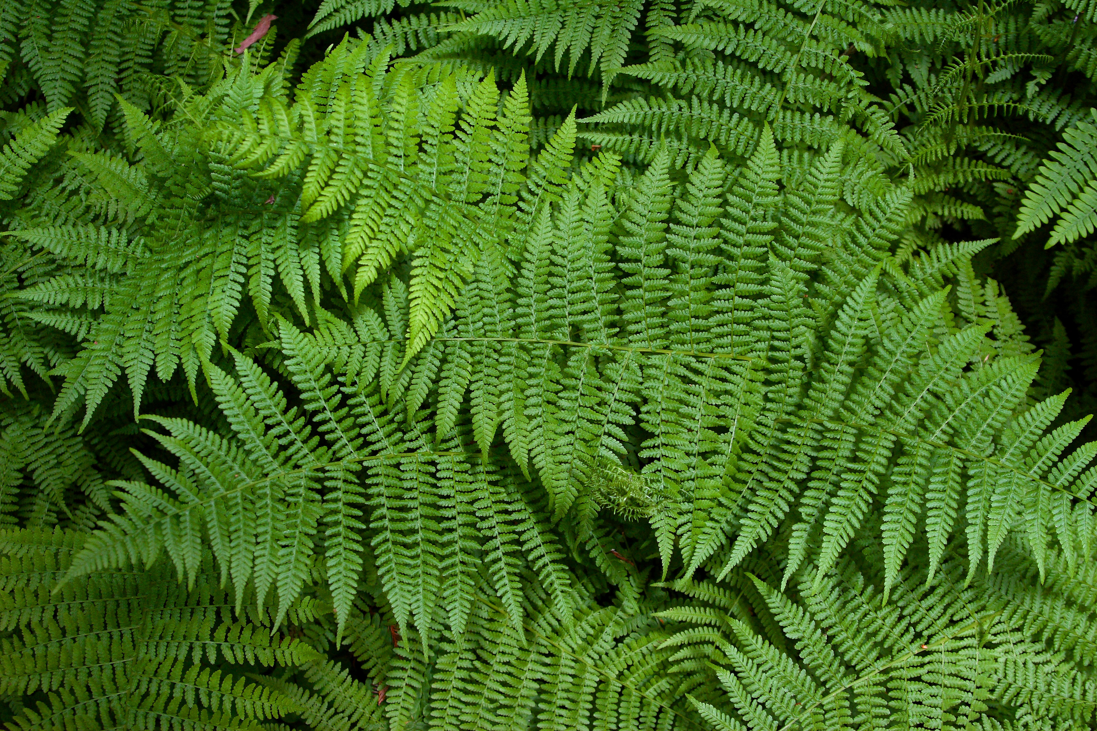 Fern plants at Muir Woods, California